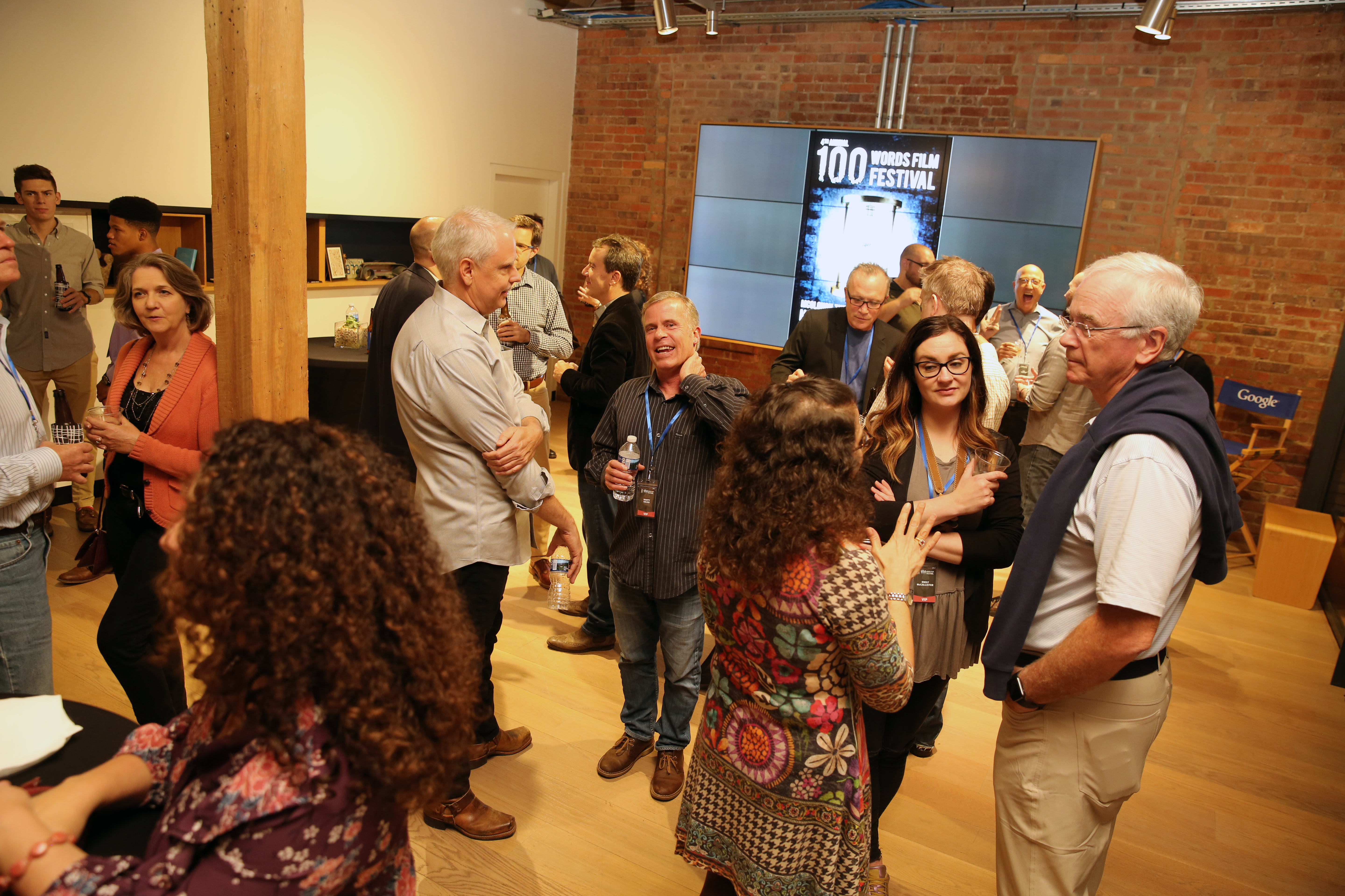 Festival VIP party hosted at the Google Fiber building in Charlotte, NC.